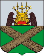 Kresttsy (Novgorod oblast), coat of arms (1781)